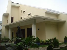 Seminari Menengah Santo Paulus jalan bangau No. 60 Palembang.